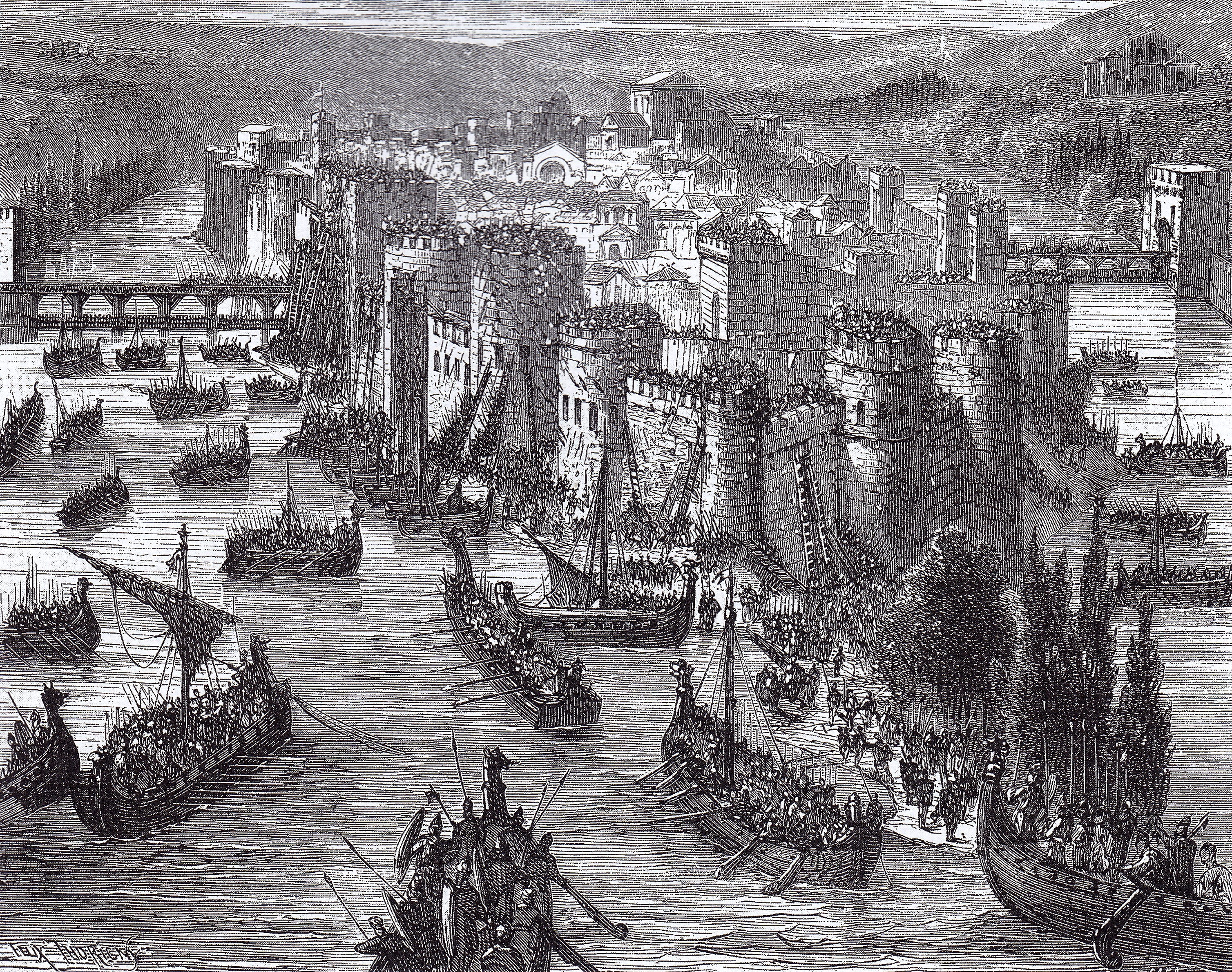 Viking Ships besieging Paris.